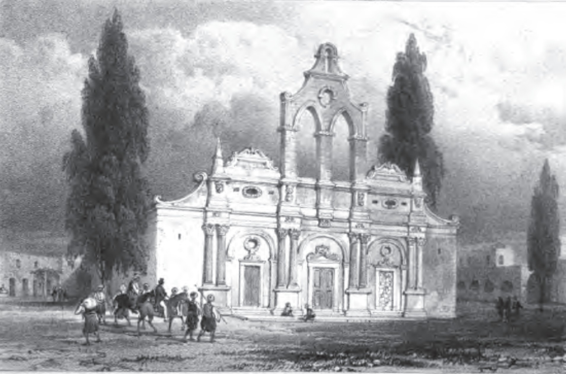 Monastery of Arkadi by Robert Pashley (Crete, Greece)